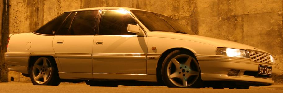 1992 HSV Statesman (VQ II) SV93 sedan. Photographed in New South Wales Australia.